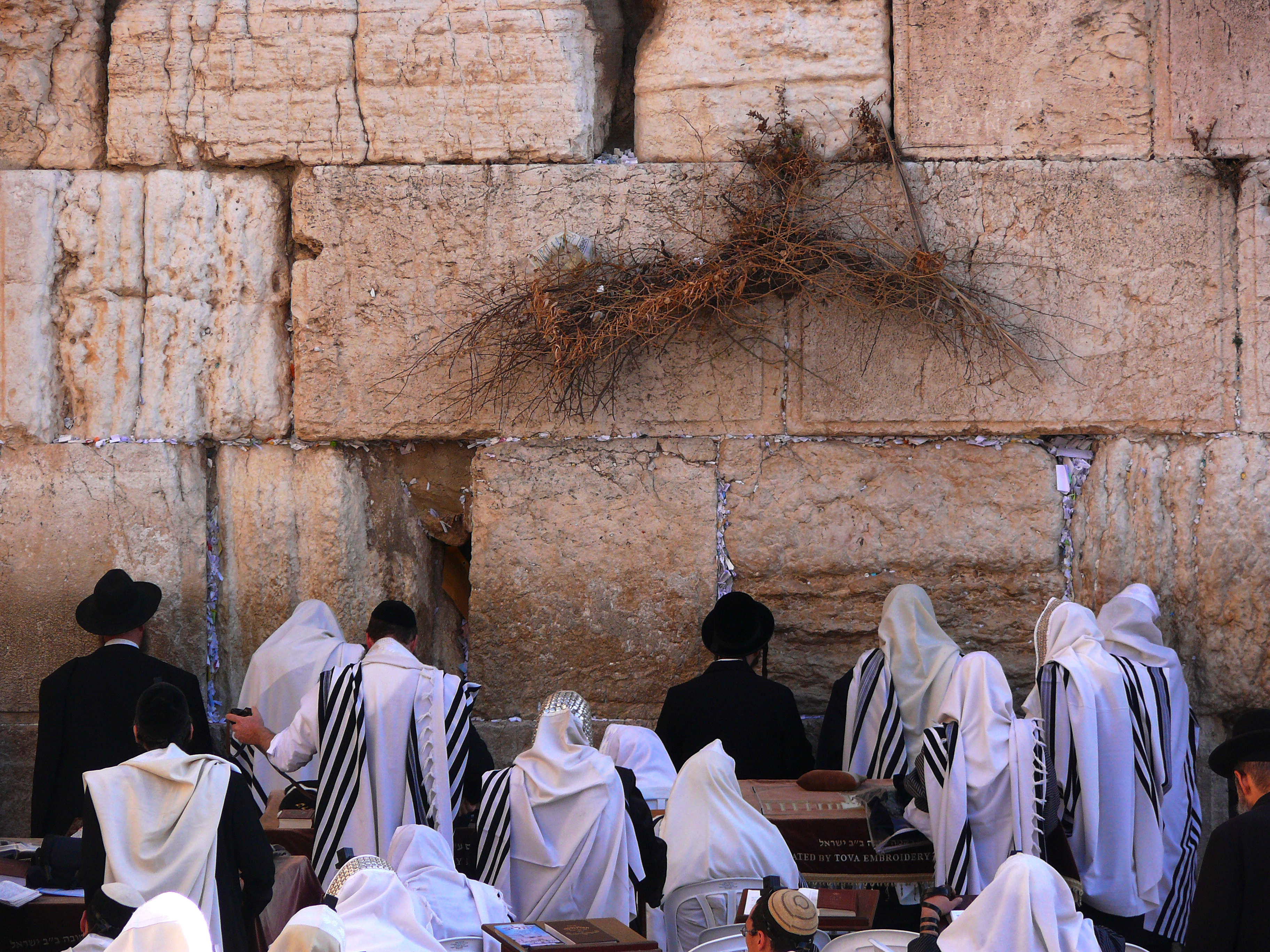 Religious Jews pray in the Western Wall (Wailing Wall, HaKotel HaMaaravi), Jerusalem